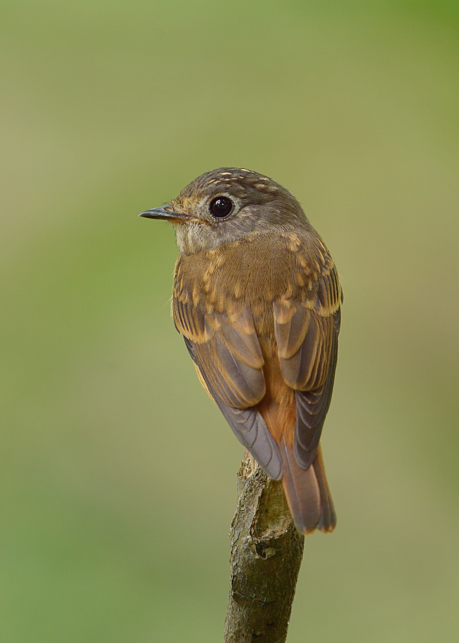 A Muscicapa ferruginea.